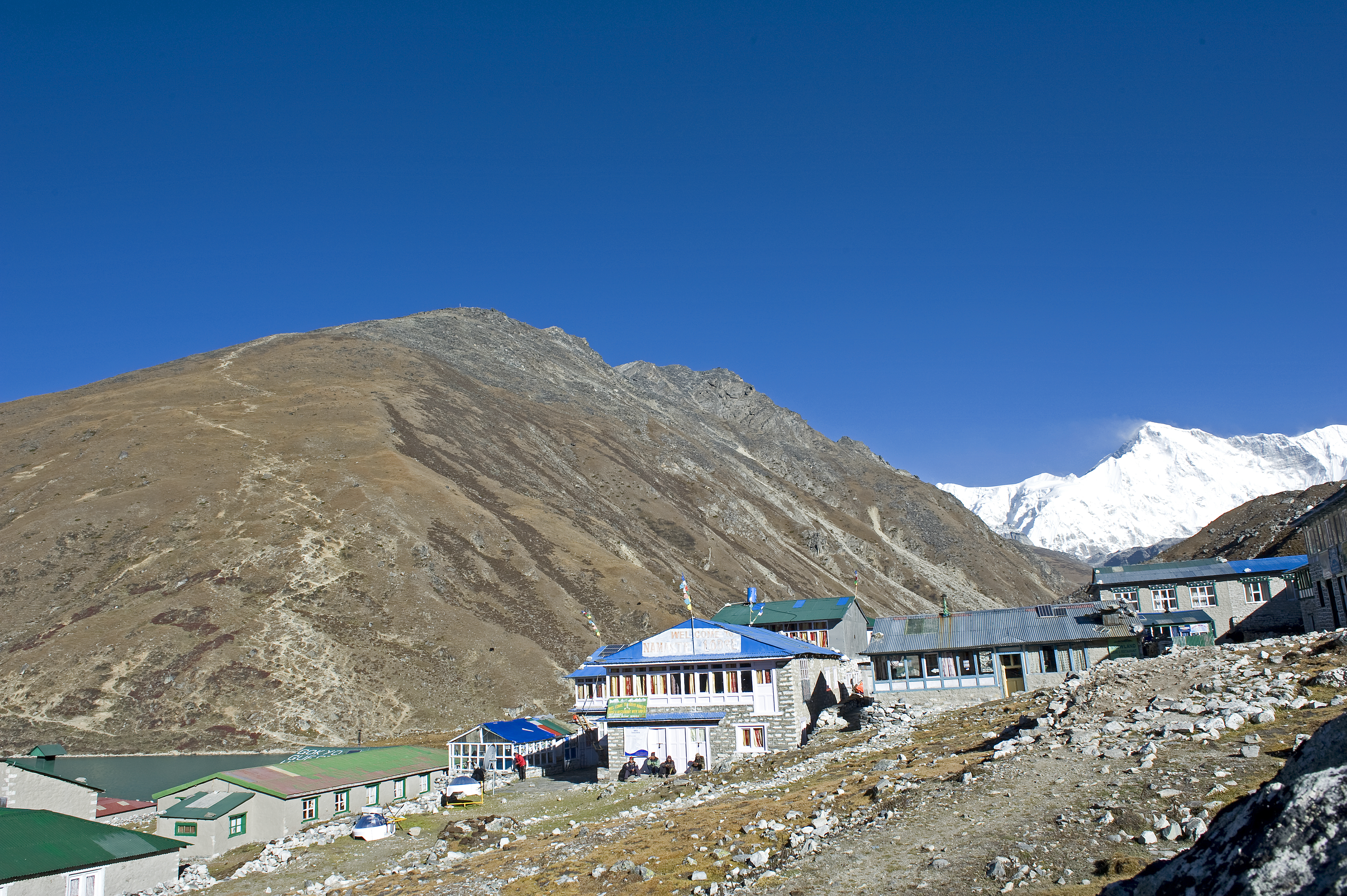 Gokyo Ri on the left as viewed from Gokyo with Cho Oyu on the right